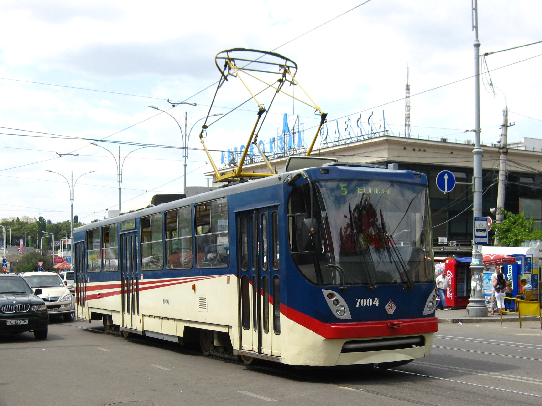 Tram K-1 in Odessa